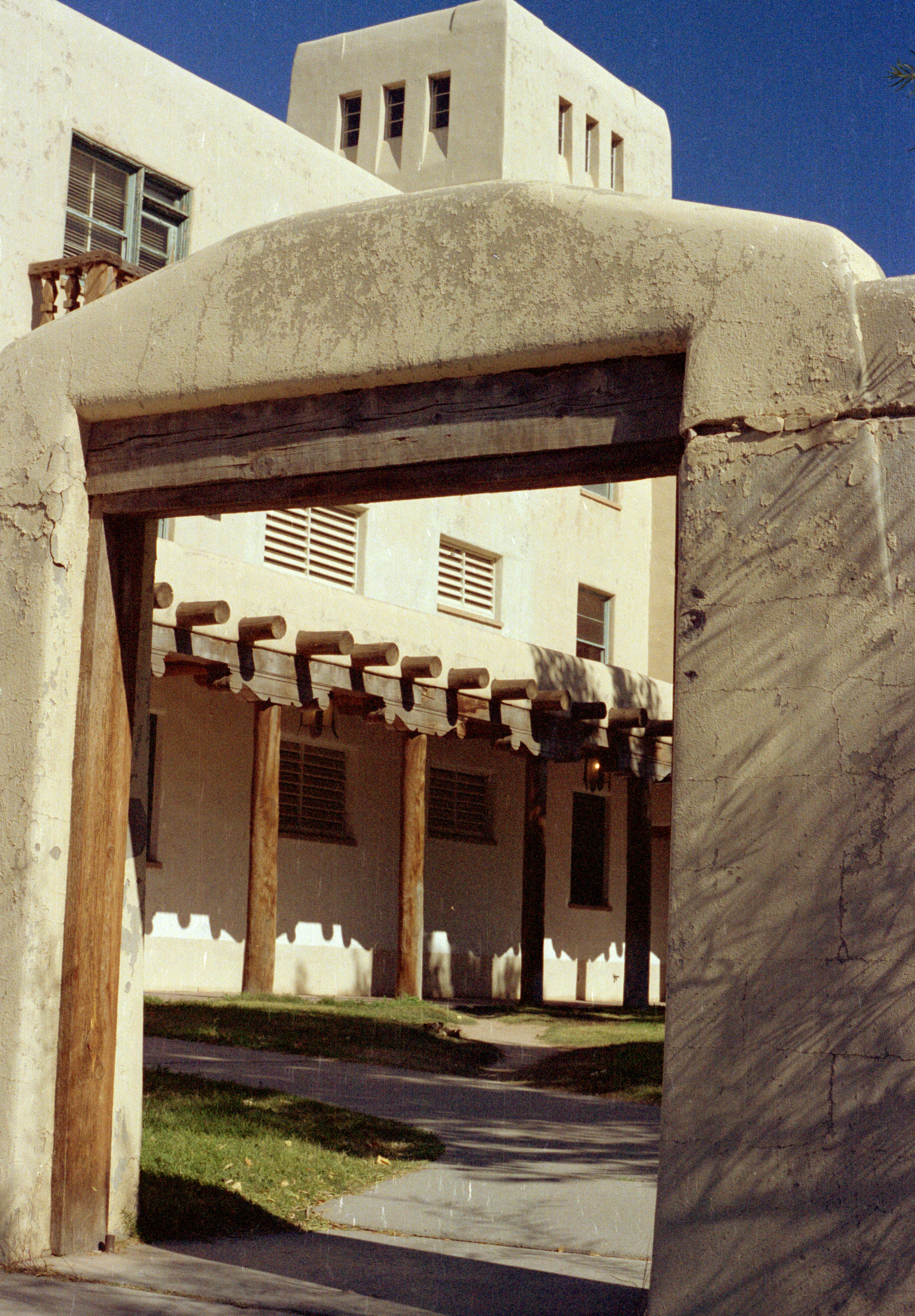 Mesa Vista Hall at the University of New Mexico Other images by this contributor - User:Sba2 Use this image as needed, but for uses other than personal, please credit as "Photo by Scott Williams".